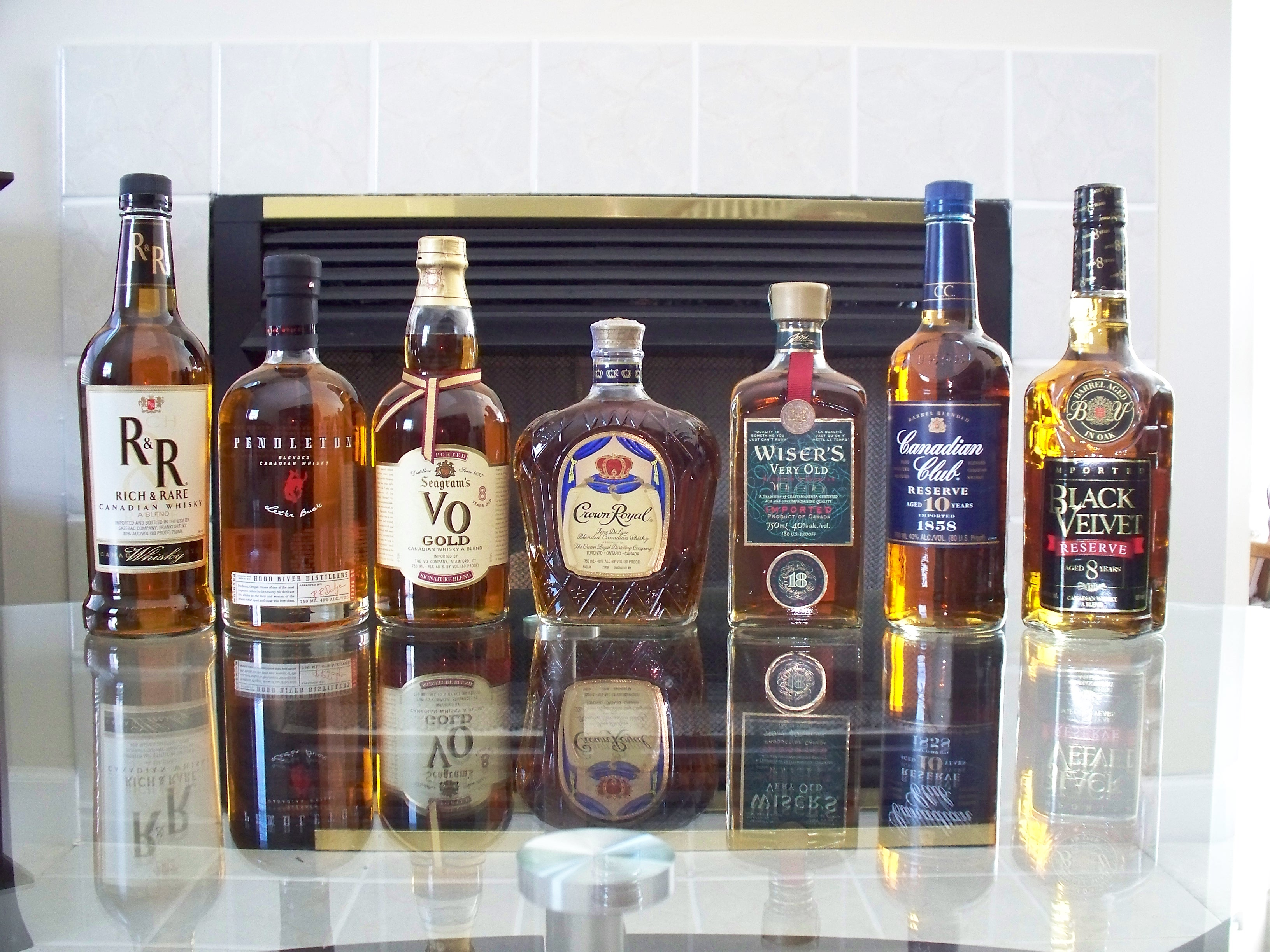 Various Canadian whiskies photo taken by User:Hammersbach.